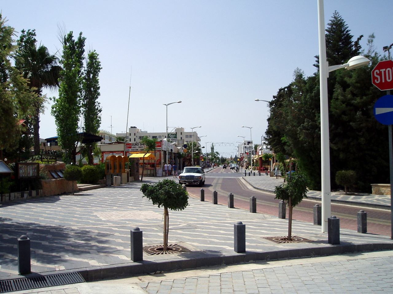 The main strip in Protaras, Cyprus